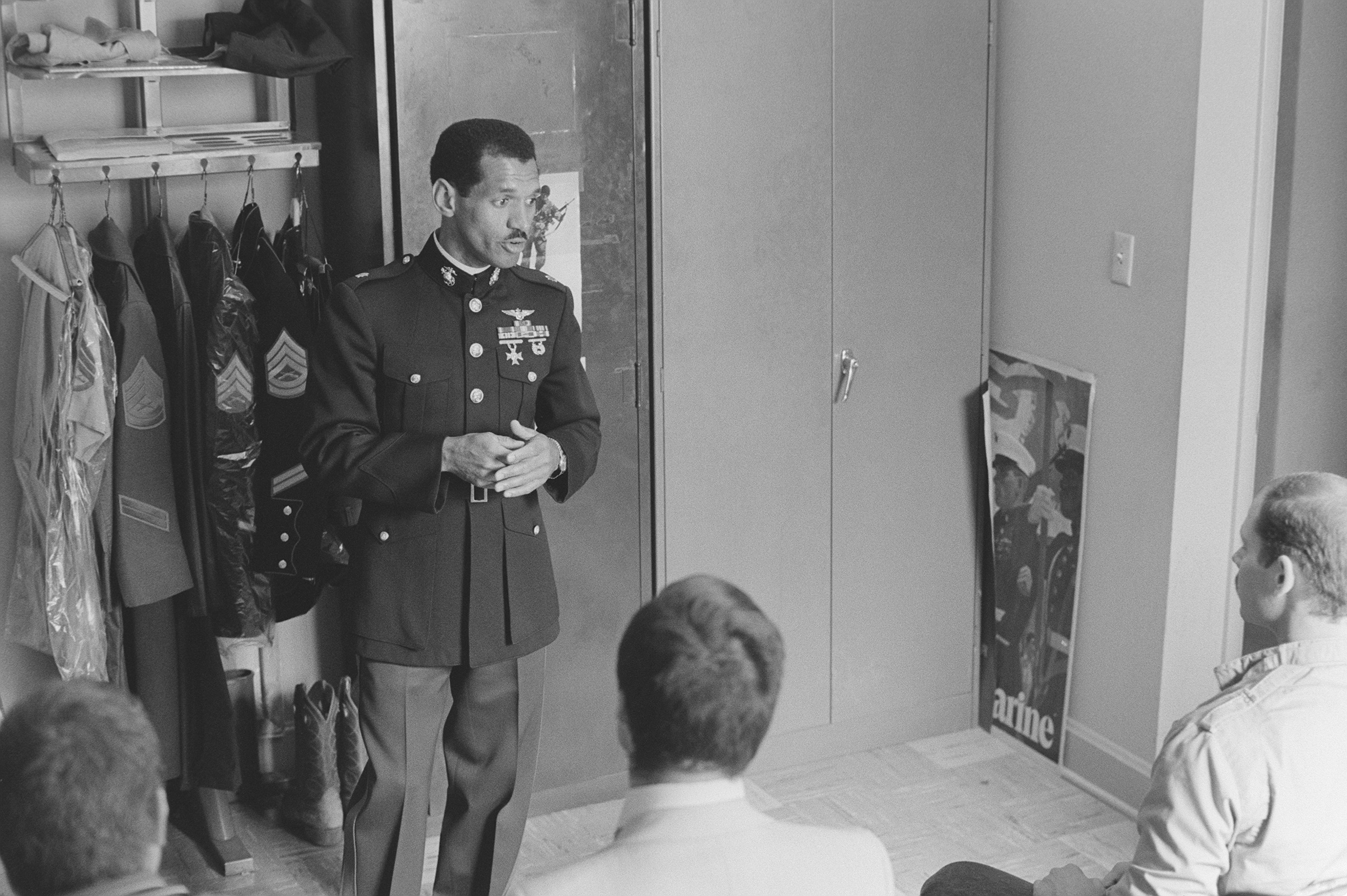 Major Charles F. Bolden Jr., astronaut, speaks to members of the Indianapolis Delayed Enlistment Pool about the Marine Corps. Bolden is visiting the recruiting station. Location: Indianapolis, Indiana (IN) United States of America (USA)